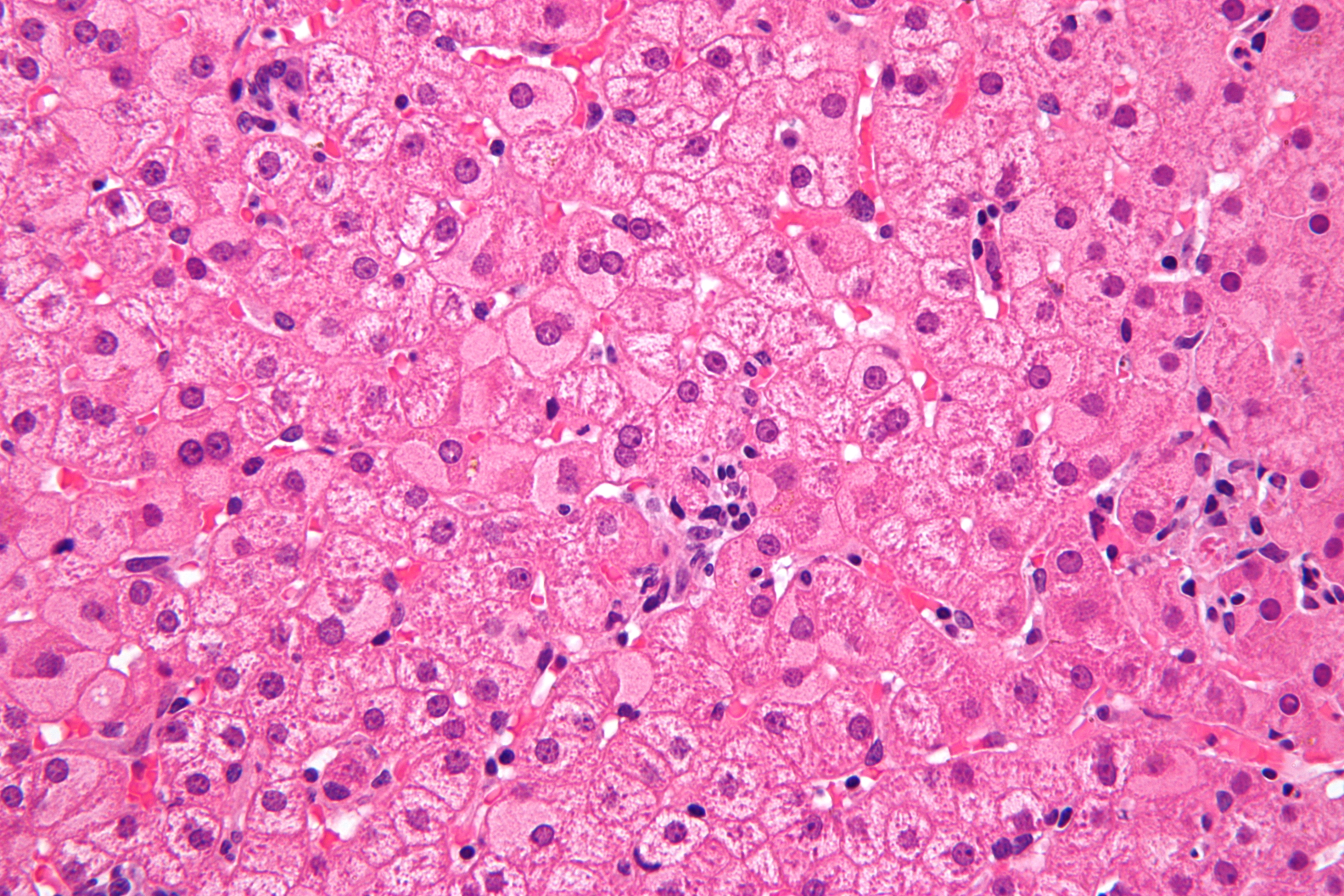 High magnification micrograph of ground glass hepatocytes, as seen in a chronic hepatitis B infection with a high viral load. Liver biopsy. H&E stain. See also Image:Ground glass hepatocytes high mag cropped 2.jpg - cropped version of this image. Image:Ground glass hepatocytes high mag cropped.jpg - cropped version - another case. Image:Ground glass hepatocytes high mag.jpg - uncropped version - another case. Image:Ground glass hepatocytes intermed mag.jpg - intermediate magnification view - another case.